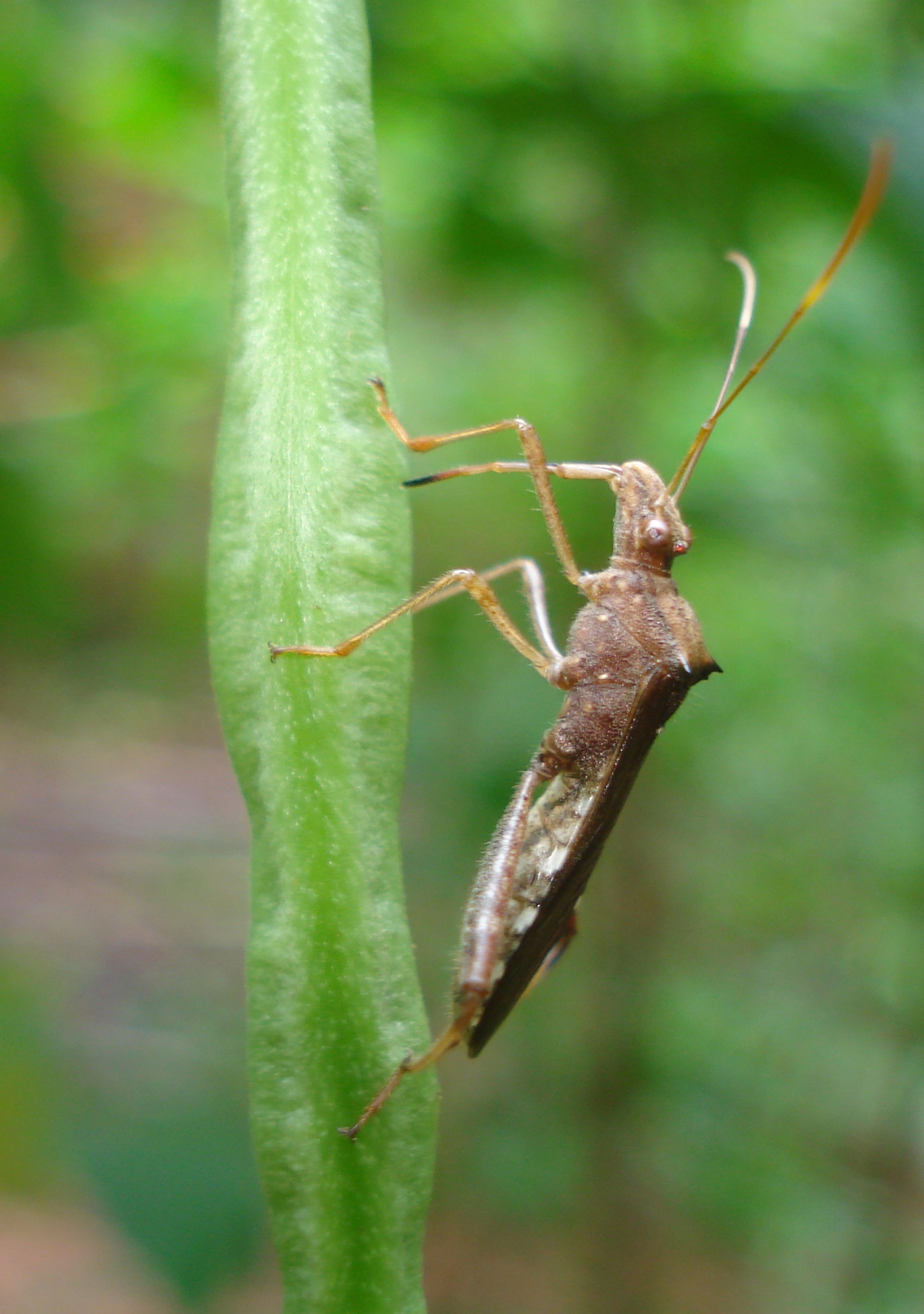 Insect attacking Yardlong Bean